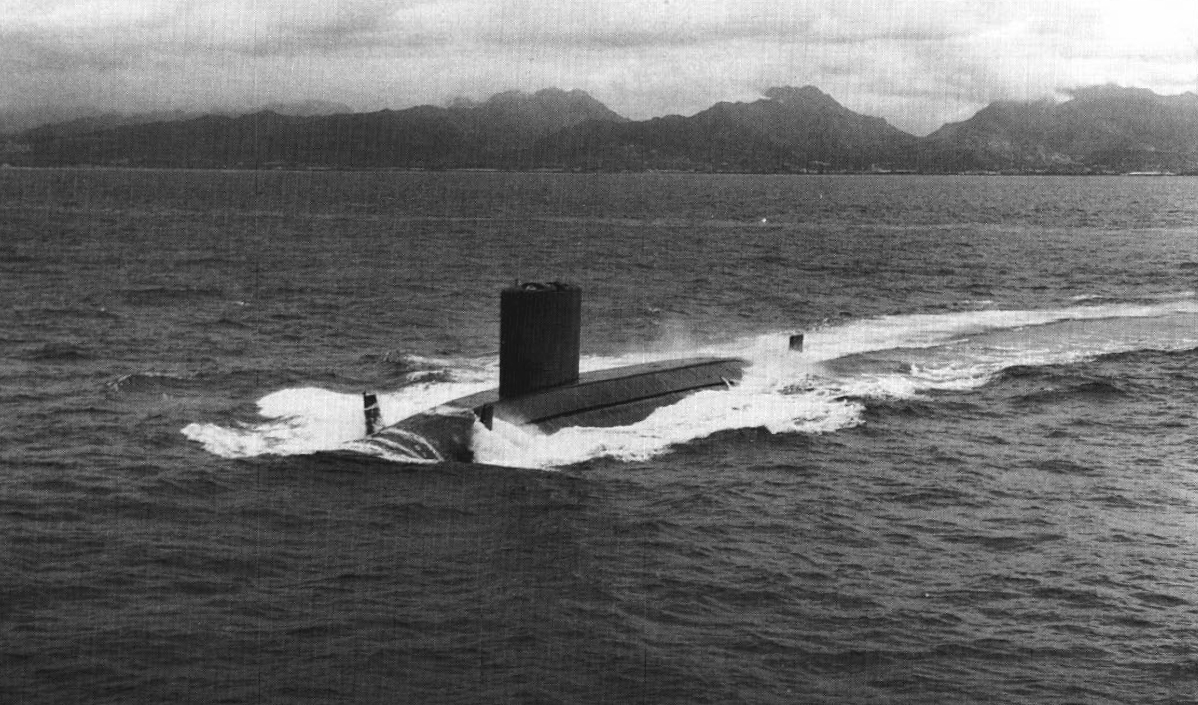 The U.S. Navy submarine USS Blueback (SS-581) underway, circa in the 1960s, before the diving planes were moved to the sail. Blueback was the last conventionally powered submarine in the United States Navy upon her decommissioning on 1 October 1990.